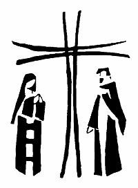 devise